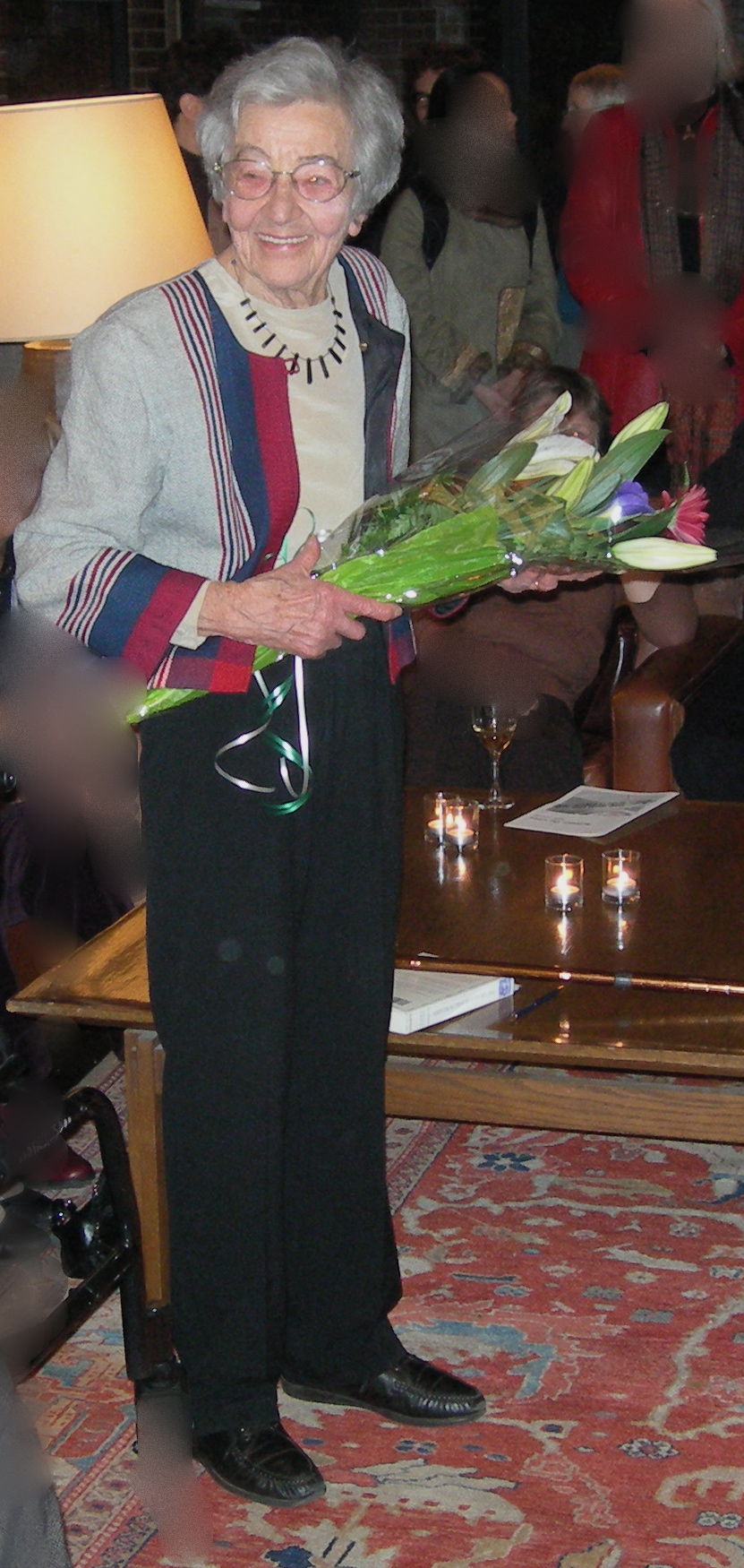 Ursula Franklin at the 2006 launch of "The Ursula Franklin Reader" at Massey College, Toronto, Ontario, Canada